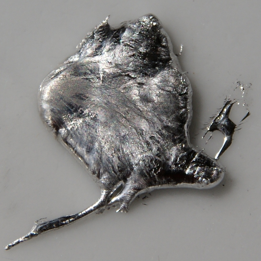 1.5 x 1.5 cm liquid indium.